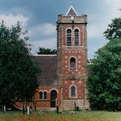 Photograph, cropped